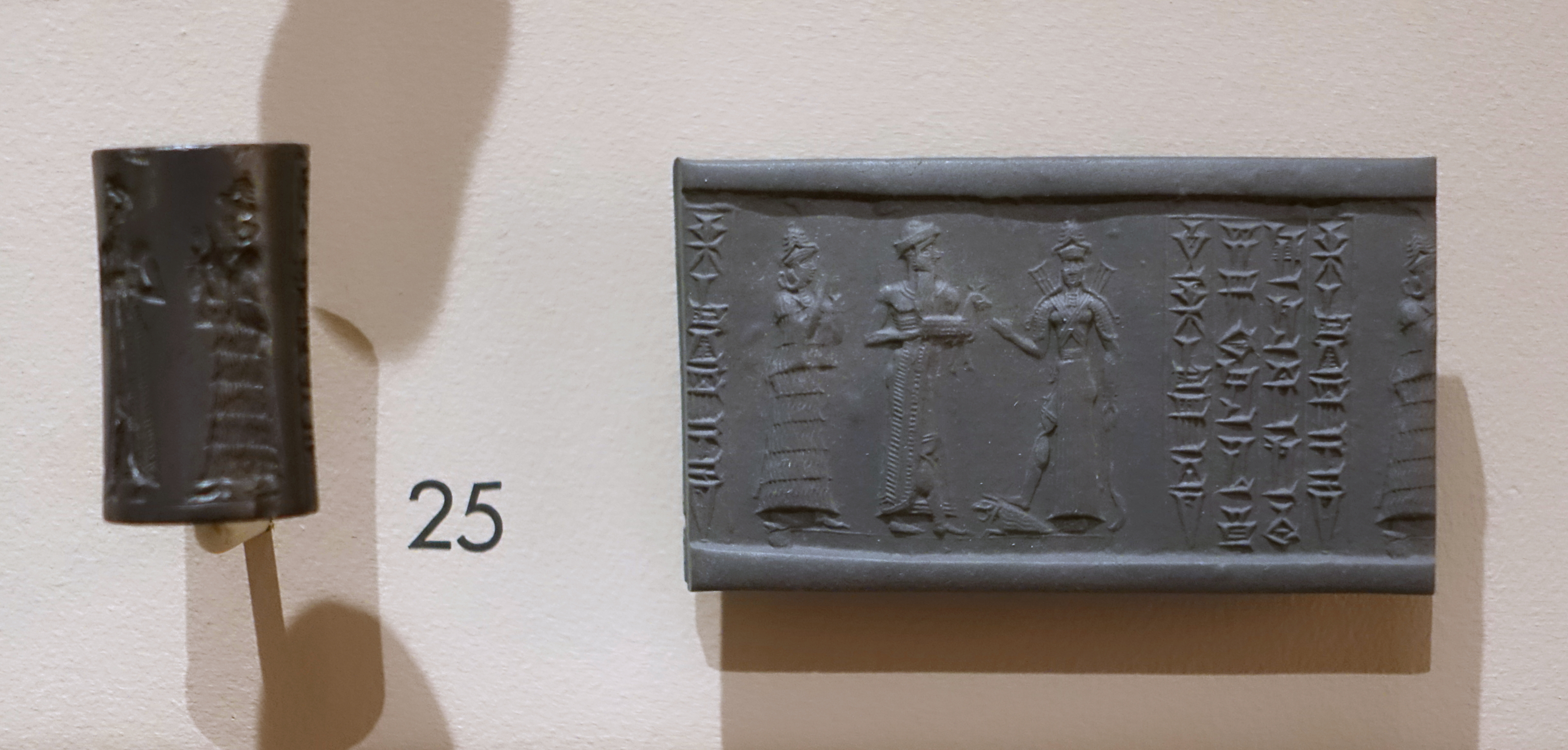 Exhibit in the Harvard Semitic Museum, Harvard University - Cambridge, Massachusetts, USA. This work is old enough so that it is in the public domain.